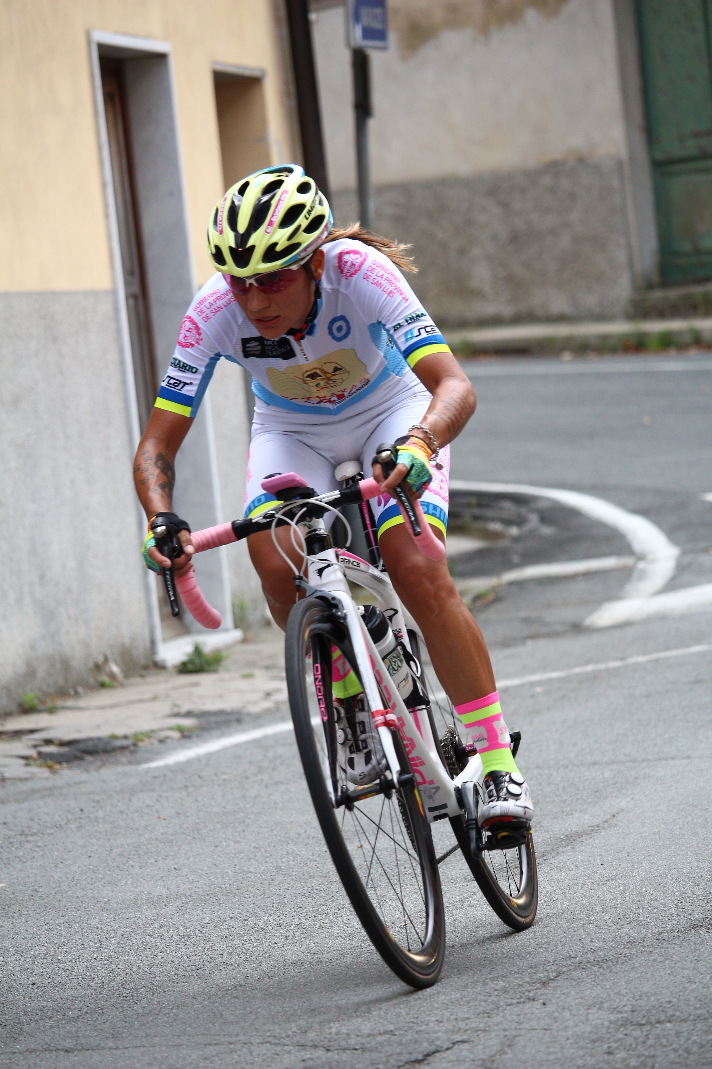 Estefania Sibilia Pilz during the 7th stage of Giro Rosa 2016 in Stella San Martino